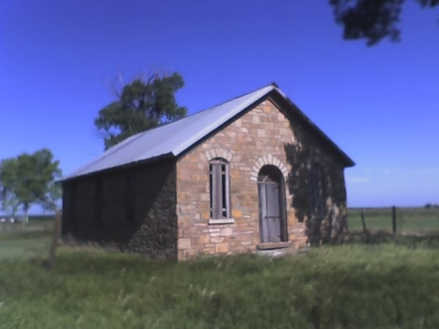 Author=Brian Hall; picture taken in 2006, shows the old Silkville school in Silkville, Kansas near the intersection of Old Highway 50 and Douglas Road.